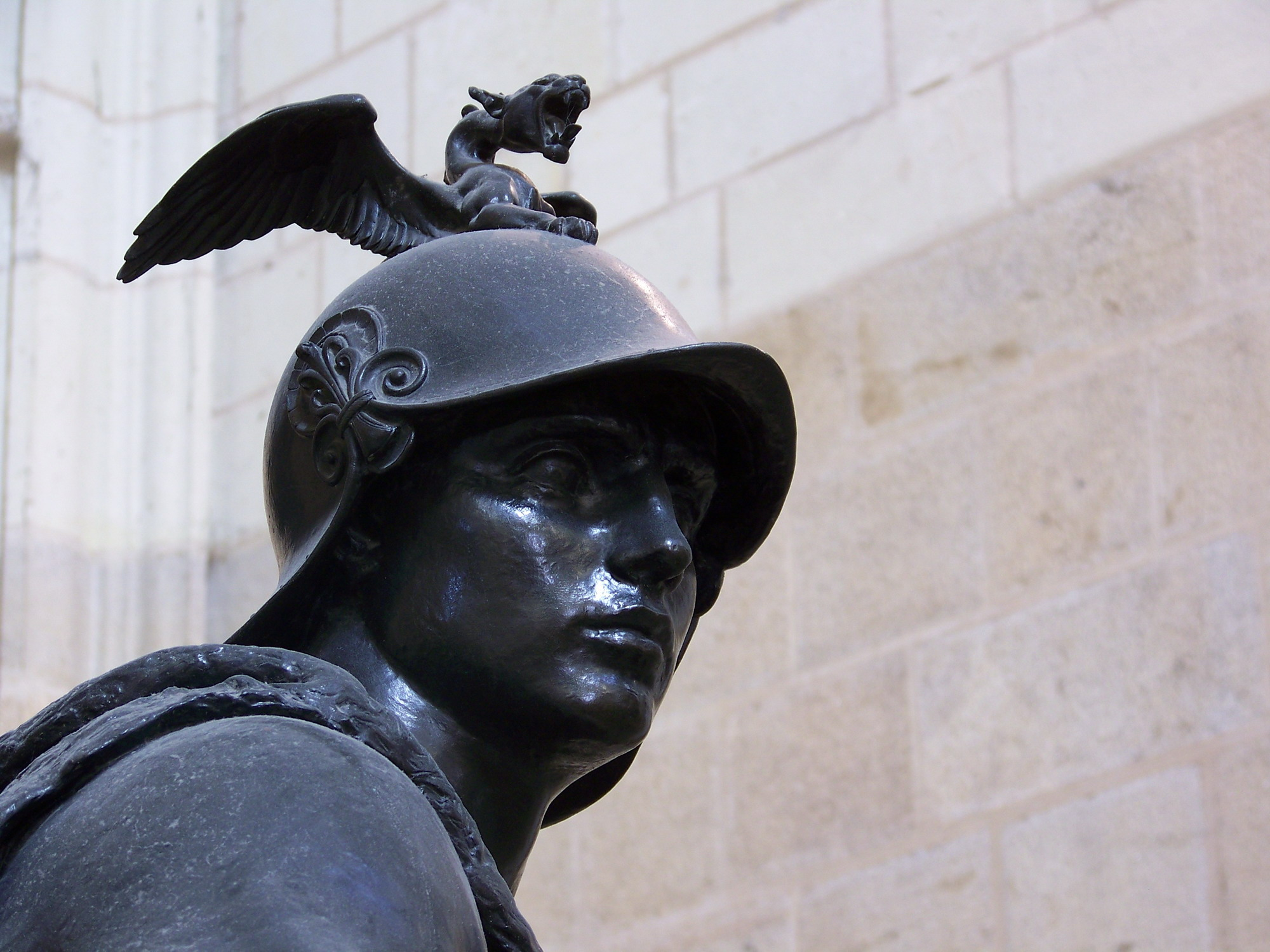 La Force Guerrière, allegoric statue by Paul Dubois at the south-east corner of the cenotaph of the general de Lamoricière, northern transept of the cathédrale Saint-Pierre et Saint-Paul in Nantes, France.